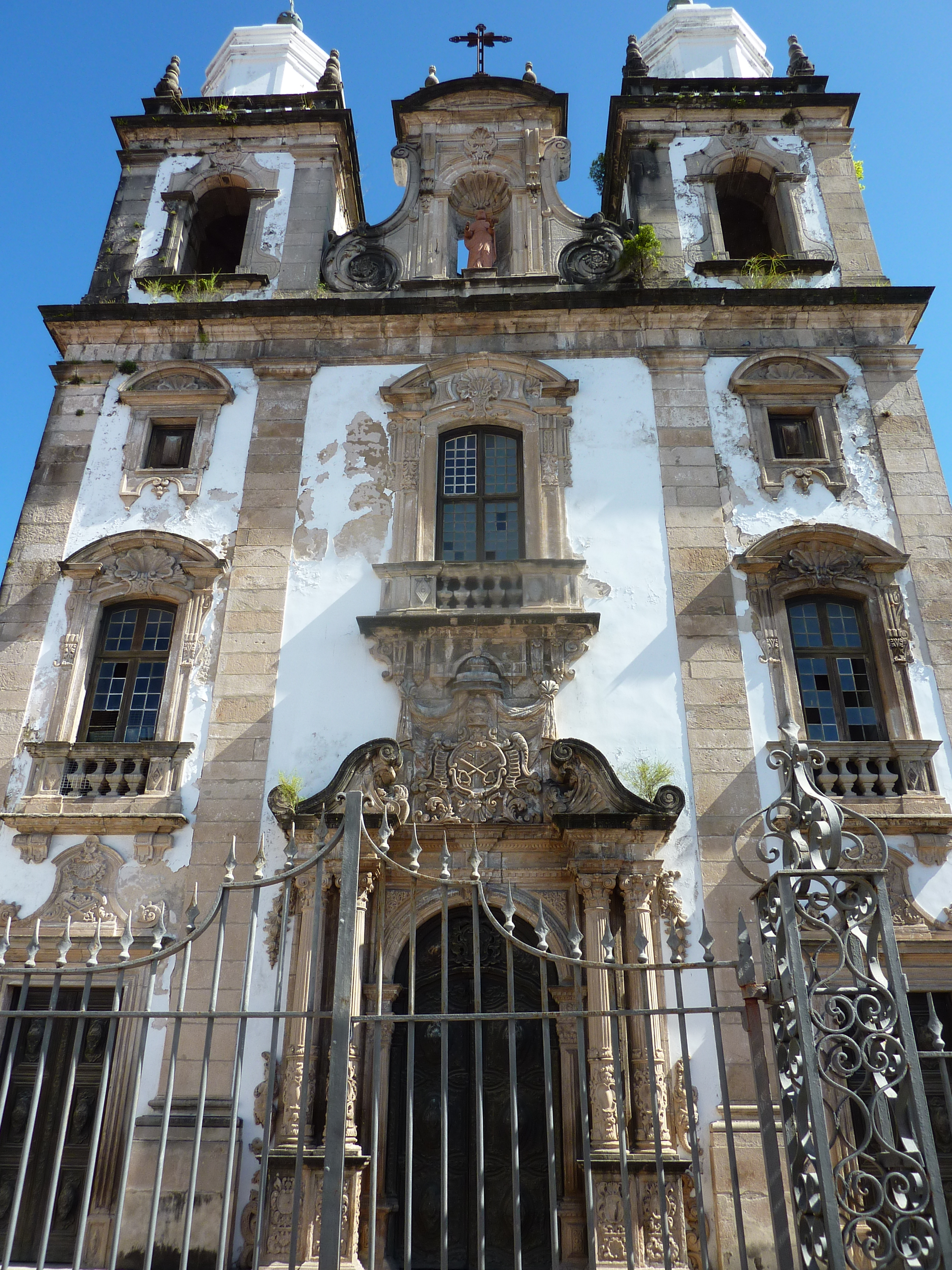 Main facade of 18th-century São Pedro dos Clérigos Church in Recife, Brazil